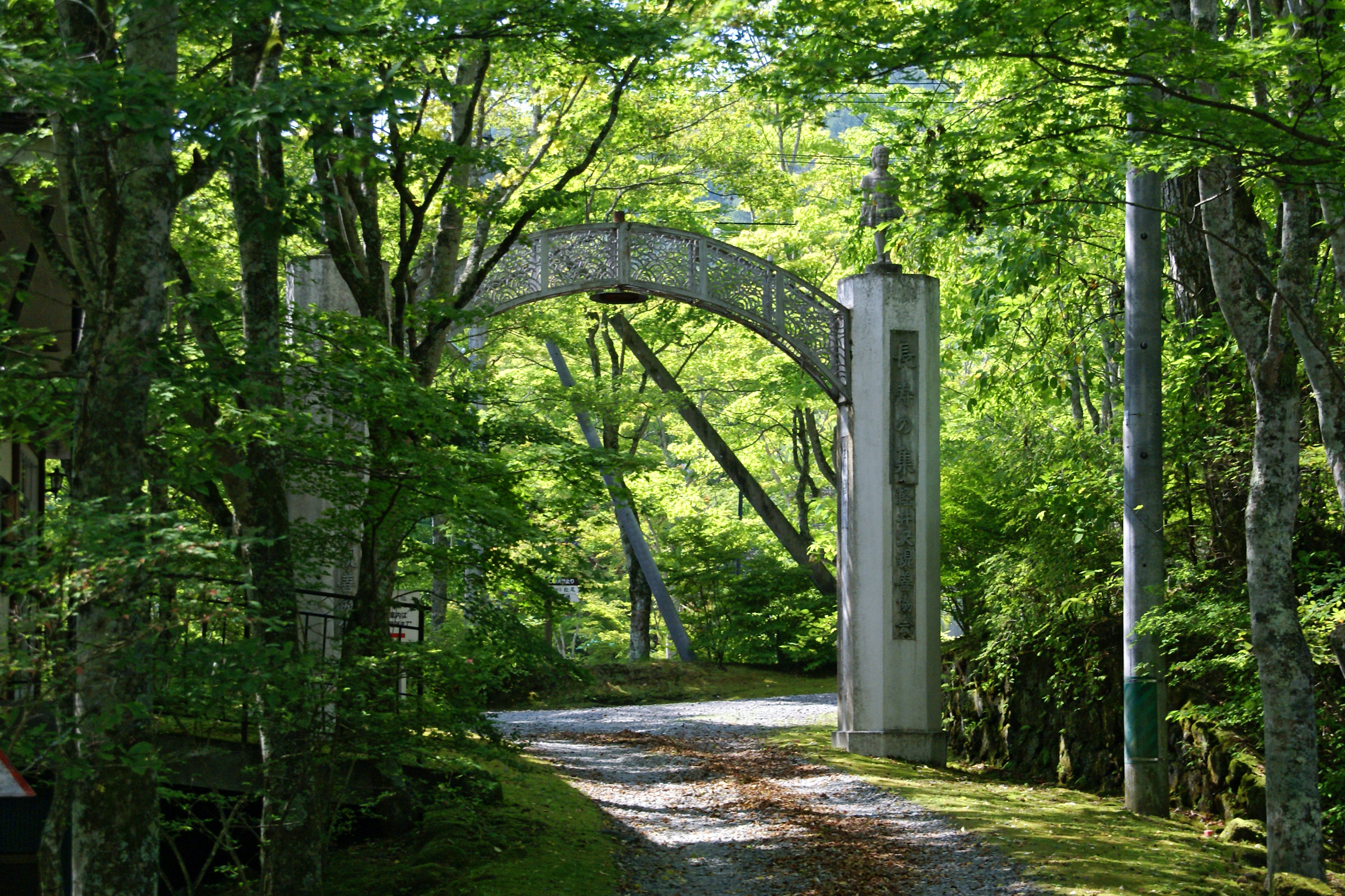 Maeda-go in Karuizawa, Nagano prefecture, Japan.